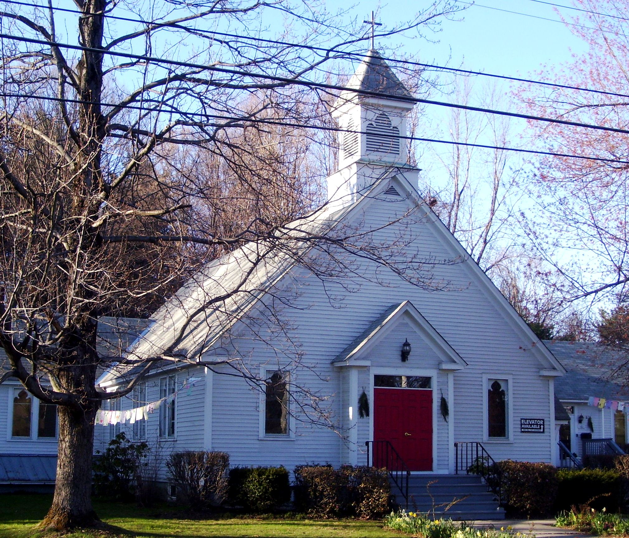 The Trinity Lutheran Church at 161 Western Avenue in Brattleboro, Vermont was chartered in 1893 as the Swedish Evangelical Church of Brattleboro. Its first sanctuary was dedicated in 1894, and the church changed to its current name in 1939. The current church was completed in 1948. {Source: "History" on the Trinity Lutheran Church website])